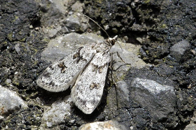 Picture taken in Commanster, Belgian High Ardennes . Species: Scoparia ambigualis